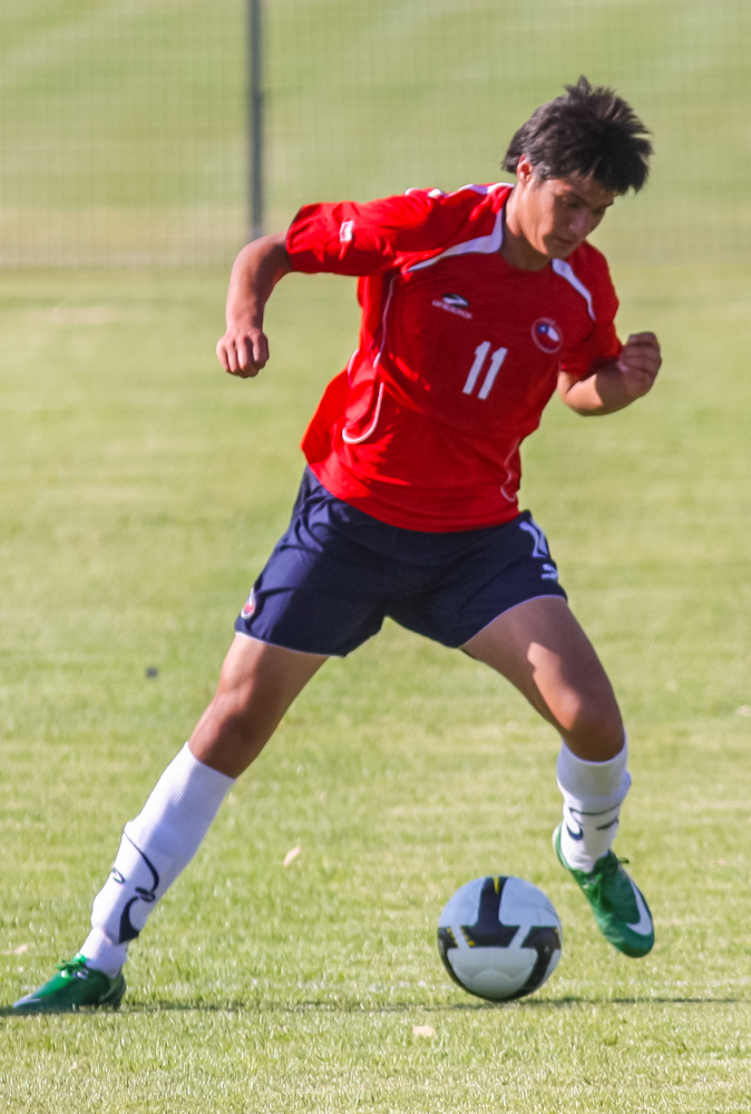 Yashir PINTO playing for the Under 18 Chile football team at the 2009 Australian Youth Olympic Festival in Sydney, Australia.